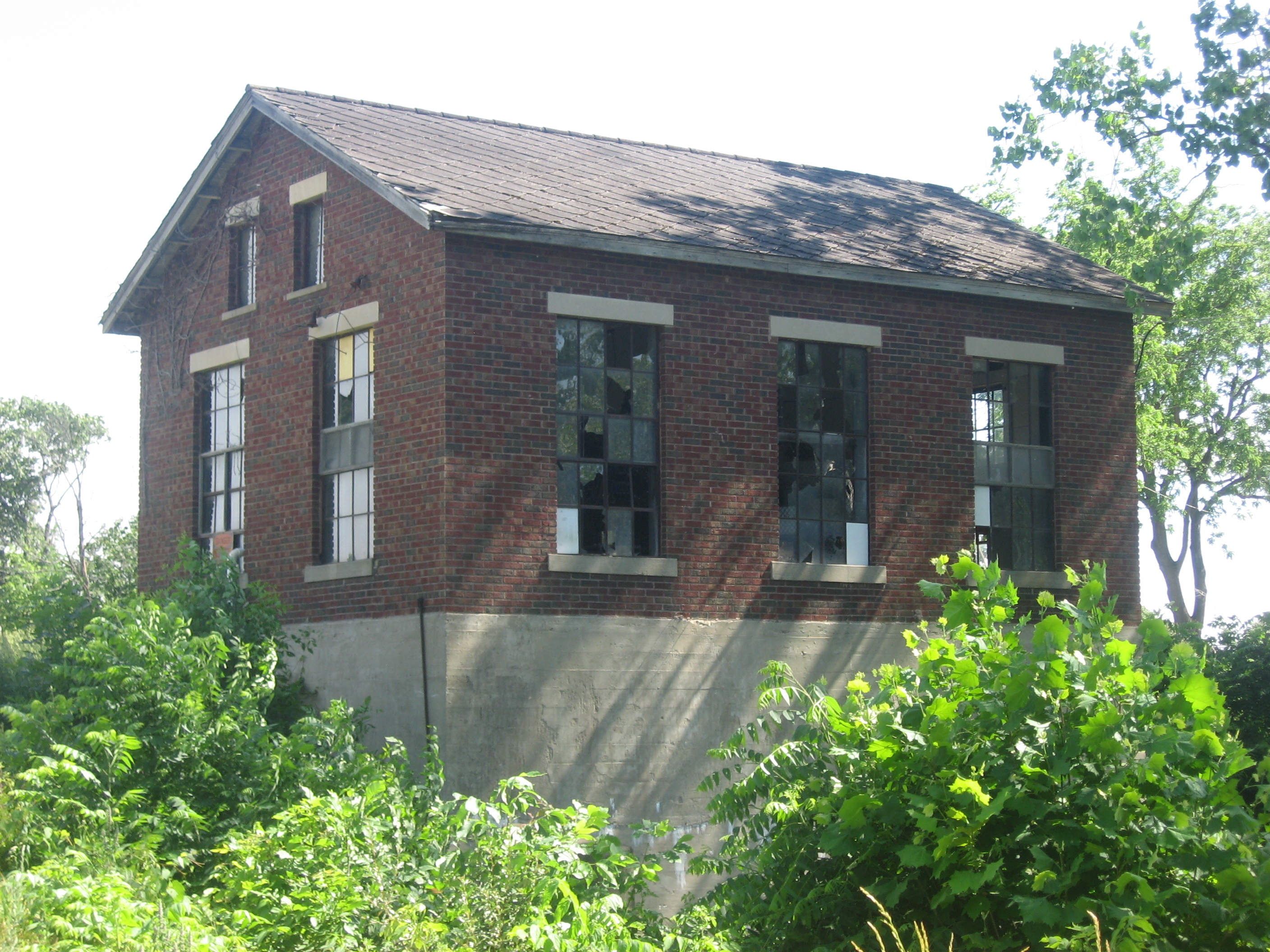 Western and northern sides of the Star Mill power plant, located on Road N50W north of Road W700N northwest of Howe in Lima Township, LaGrange County, Indiana, United States. A small hydroelectric power plant built in 1911, it is listed on the National Register of Historic Places.